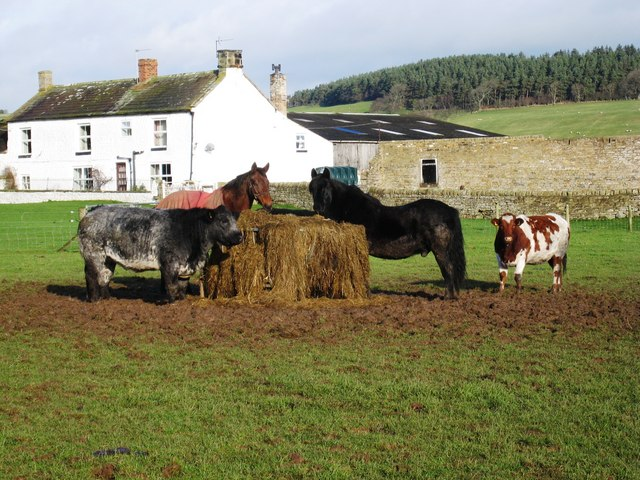 Animal stock feeding at East Holme House This photograph shows a number of horses and cows eating their lunch. The animal feeder in the centre of the picture looks as though it contains some form of straw - or maybe its sphagetti? East Holme House can be seen in the background on the left of the picture. The forested area on the horizon is part of Crag Wood.